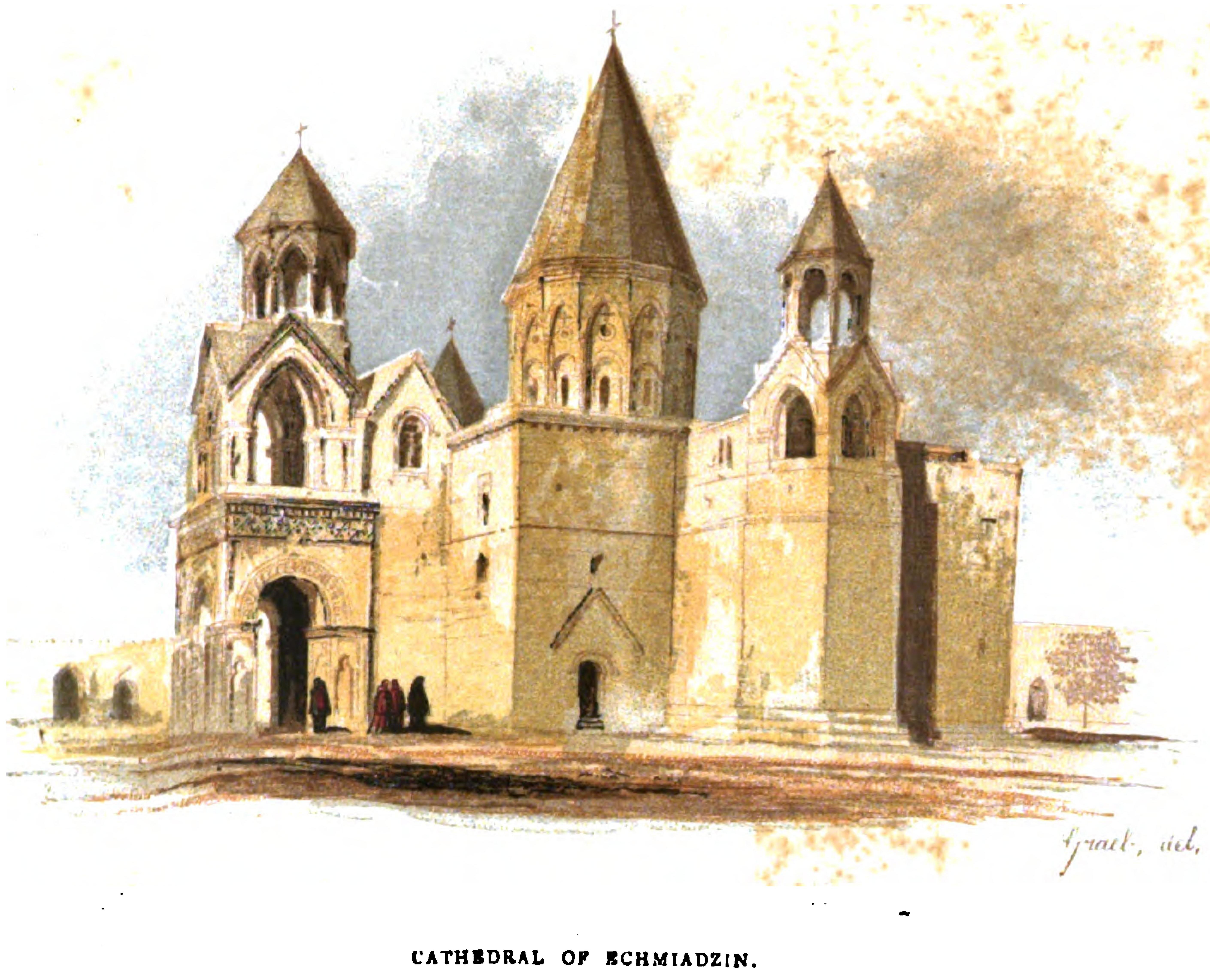 Transcaucasia: sketches of the nations and races between the Black Sea and the Caspian